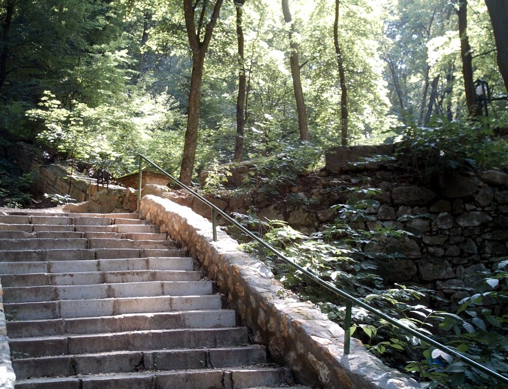 the foundaments of the earstwhile Bootmakers' Tower in Brașov/Kronstadt/Brassó (Romania), at the foot of Tâmpa hill